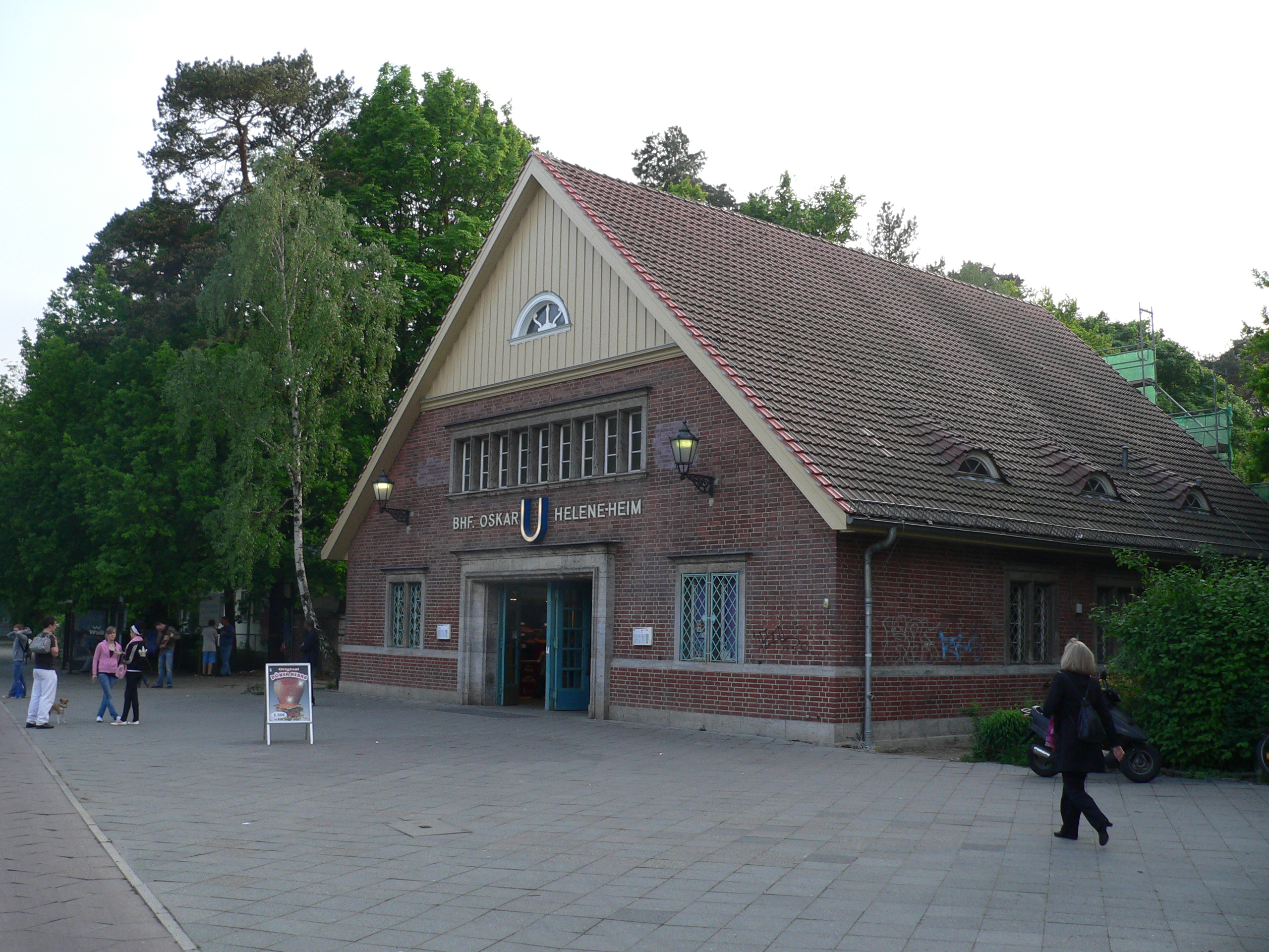 Berlin-Zehlendorf Clayallee U-Bhf Oskar-Helene-Heim